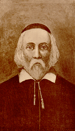 Imaginary likeness of William Brewster